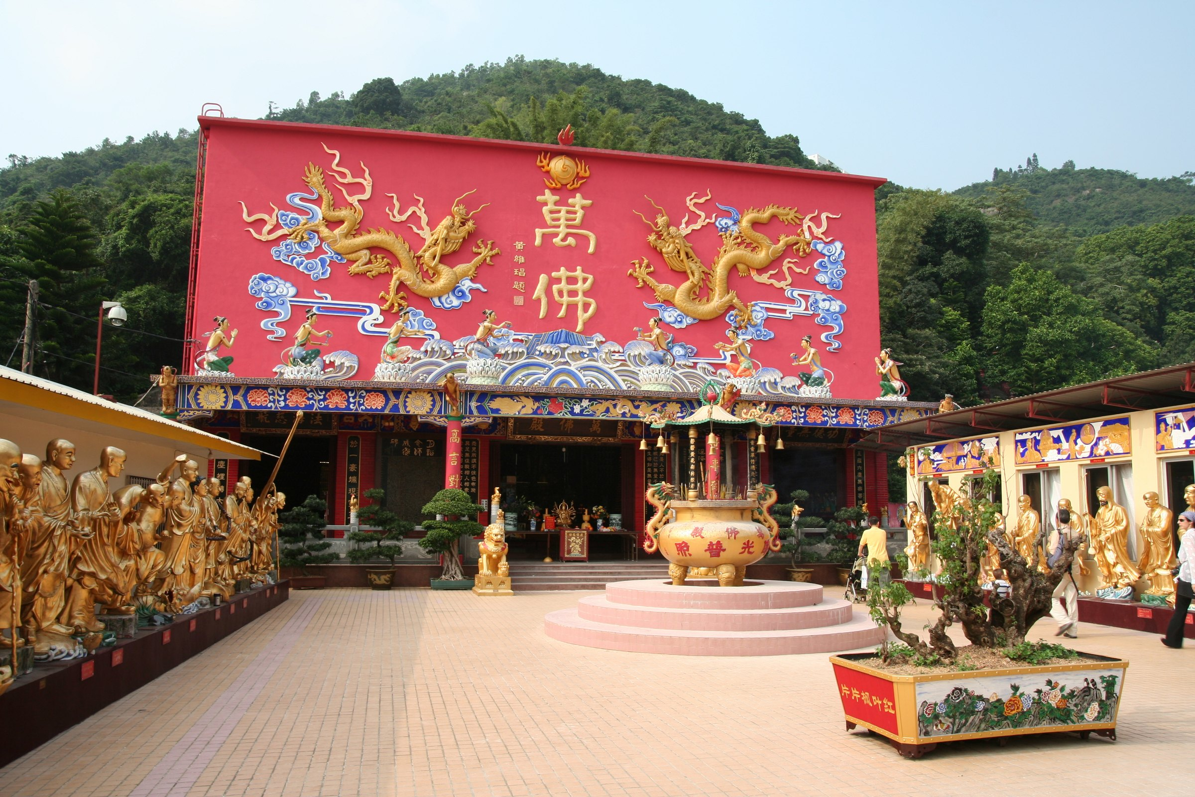 Ten Thousand Buddhas Monastery (萬佛寺) is a Buddhist temple in Shatin, Hong Kong. Photograph author is me.